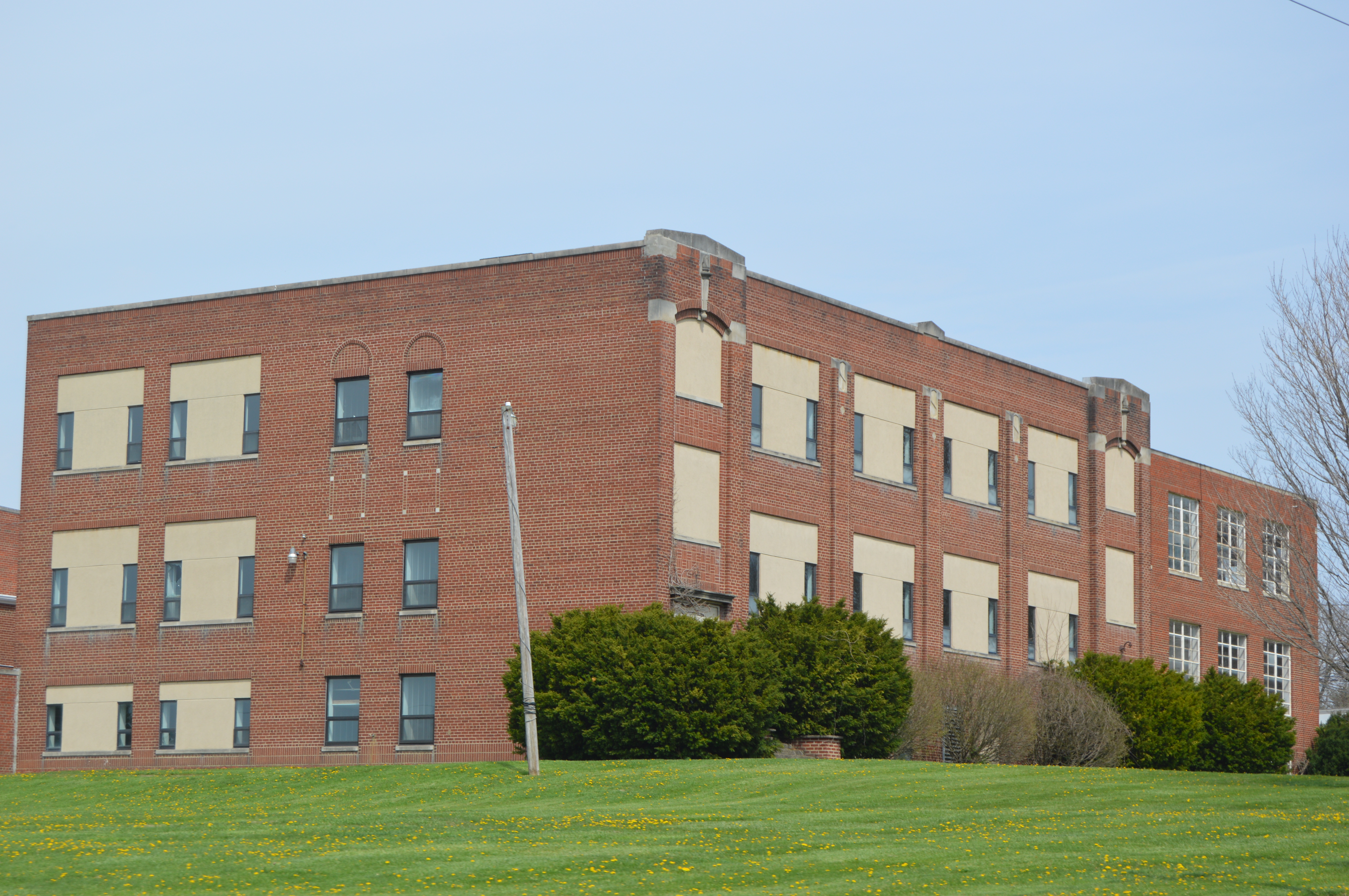 Front of the former Savannah village school, located on the western side of S. Main Street (U.S. Route 250) in Savannah, Ohio, United States. It was built in 1923.